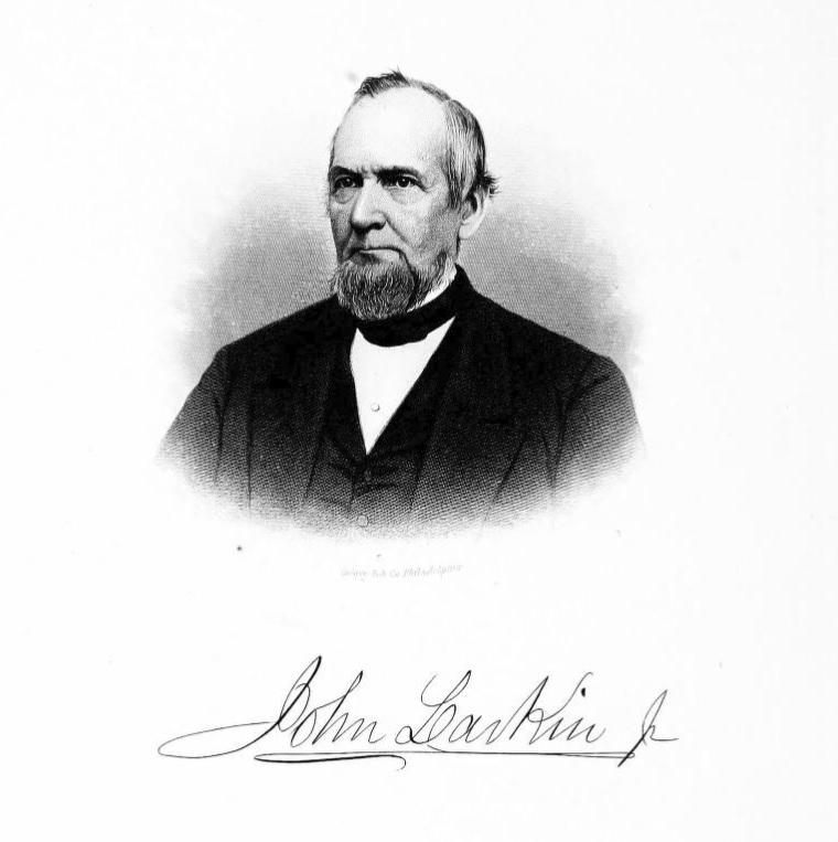 Image of John Larkin Jr. from Henry Graham Ashmead's "History of Delaware County, Pennsylvania"